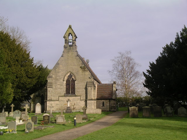 John The Baptist Parish Church A landscape view of the church and churchyard.